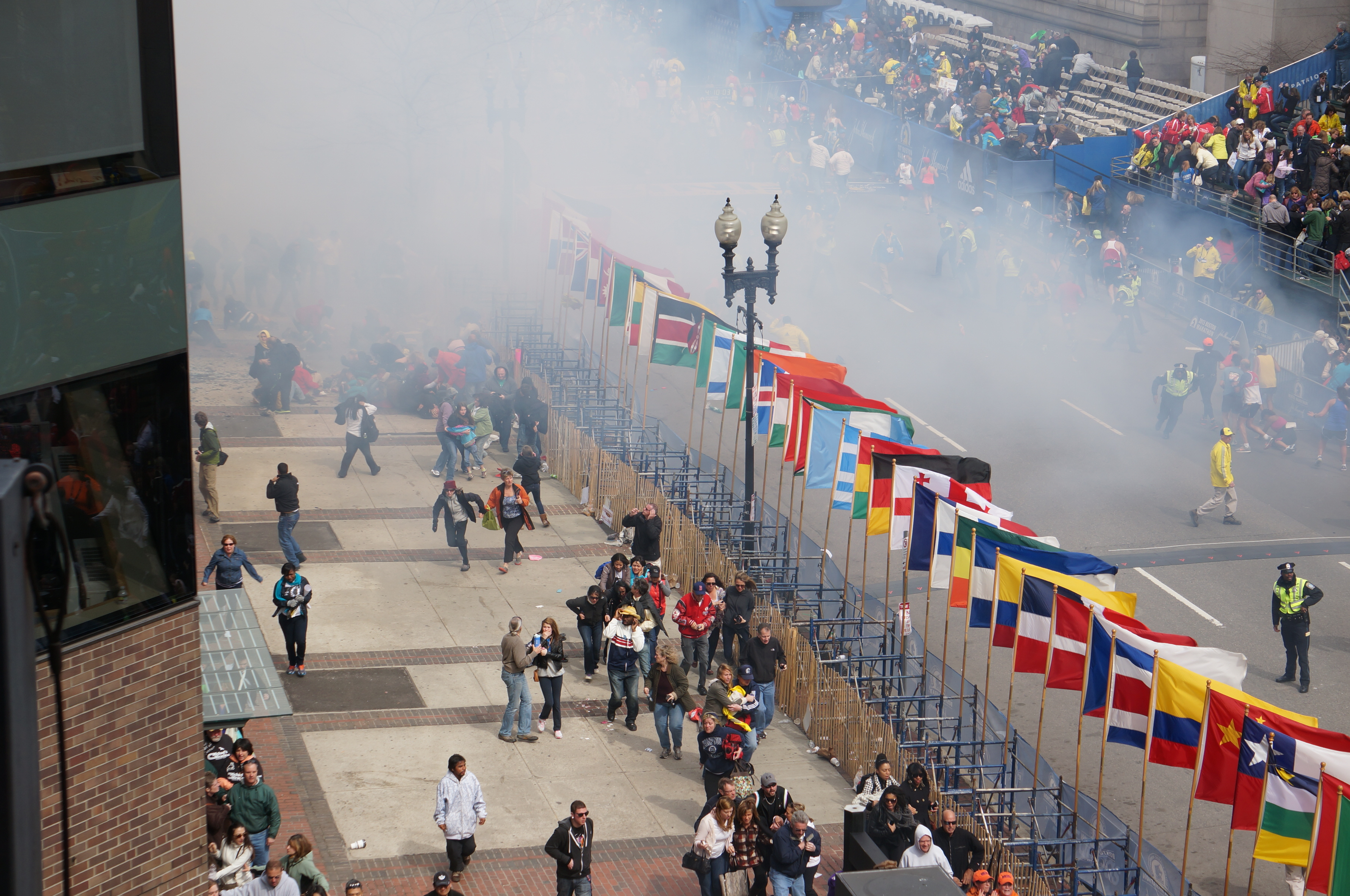 Boston Marathon explosions